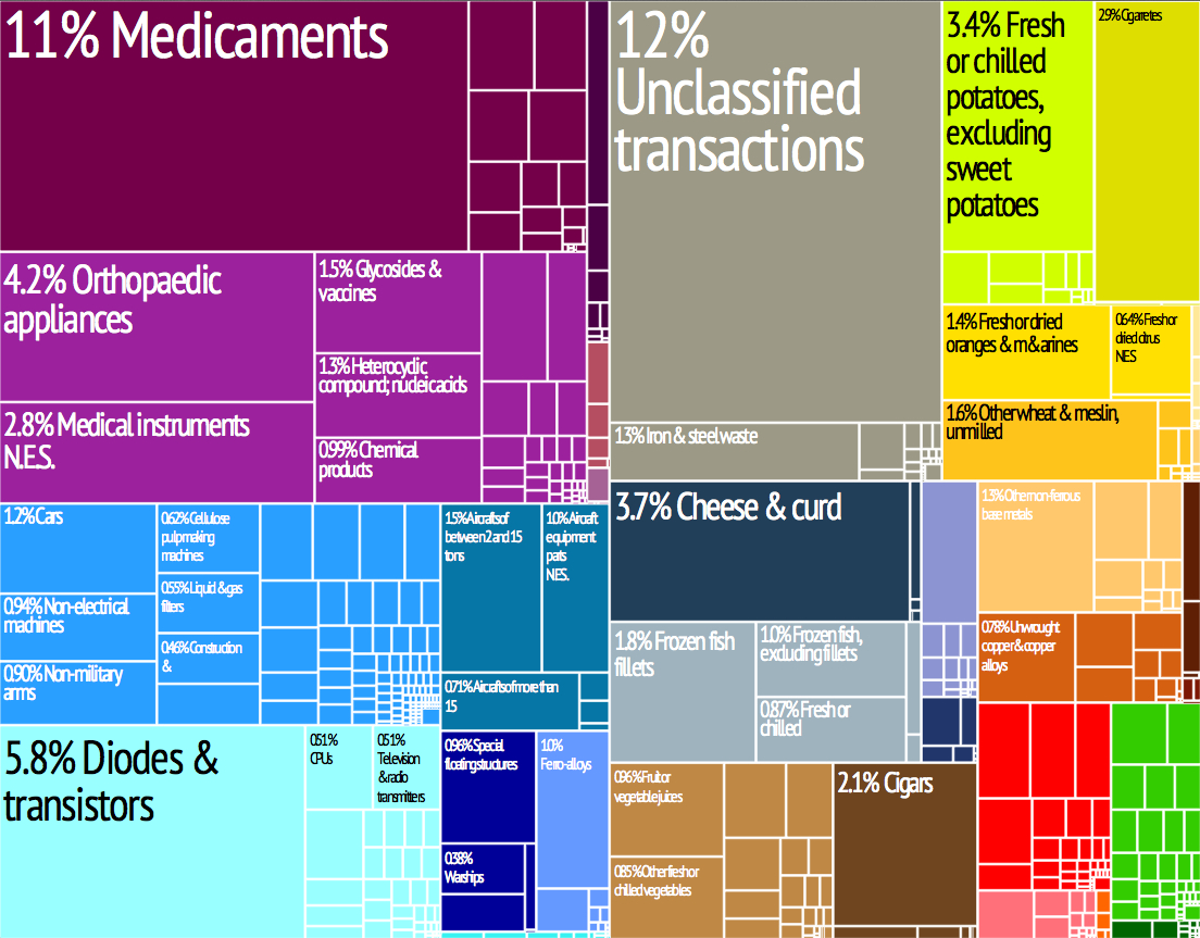 Export Trading Treemap. From MIT/Harvard The Observatory of Economic Complexity